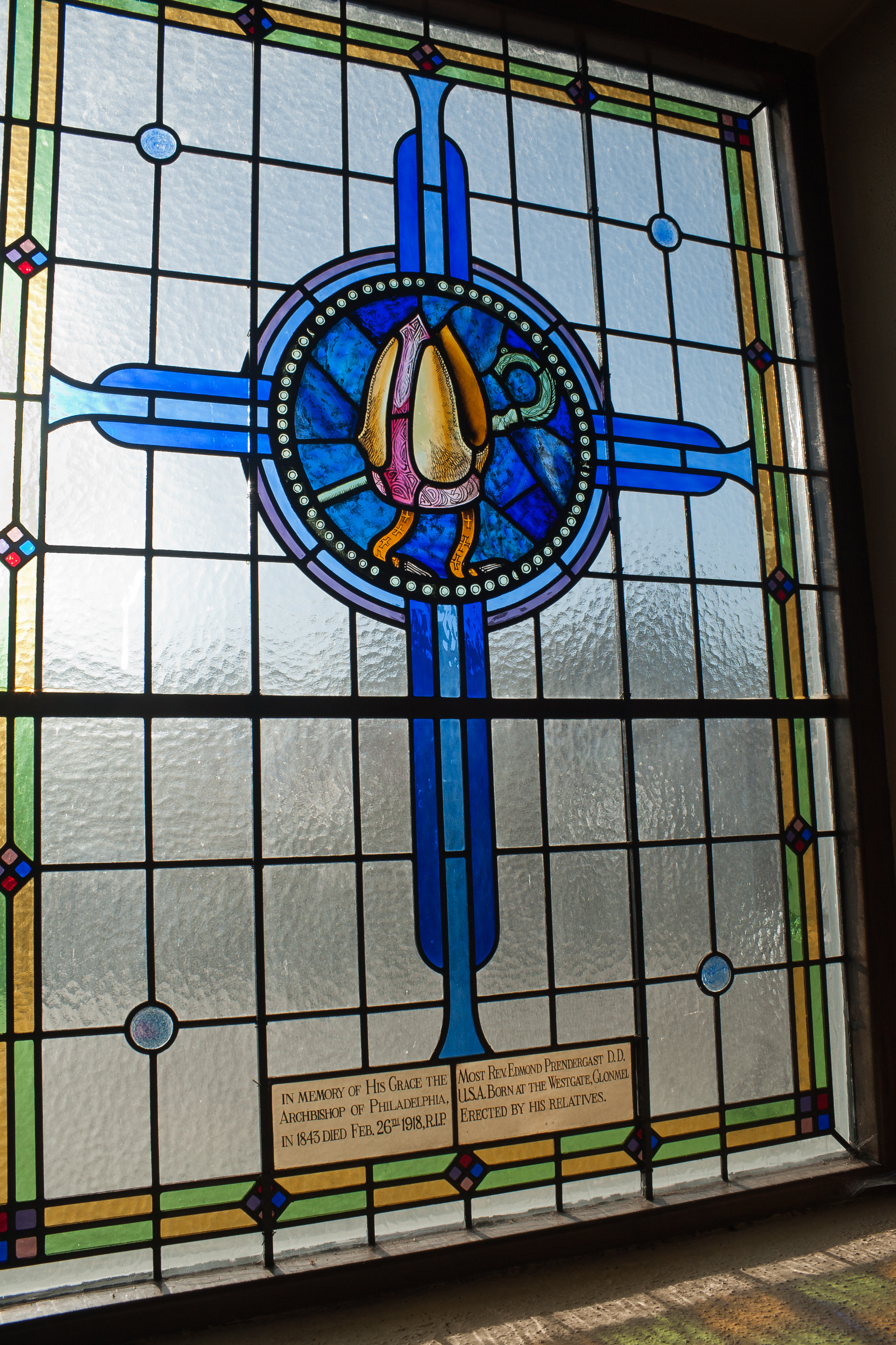 Lower stained glass window in the first bay of the west wall of the nave, depicting mitre and crozier. Inscription: in memory of His Grace the Most Rev. Edmond Prendergast D.D., Archbishop of Philadelphia, U.S.A. Born at the Westgate, Clonmel, in 1843 died Feb. 26th 1918, R.I.P. Erected by his relatives.